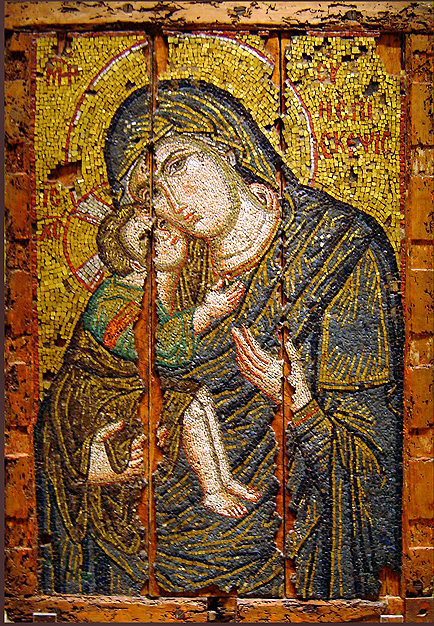 Mosaic icon with the Virgin of Tenderness, with the eponym "Episkepisis"("The Visitation"). From Triglia in Asia Minor, Church of Saint Basil. Product of a Constantinople workshop, Late 13th century. Exhibited in the Byzantine and Christian Museum in Athens.